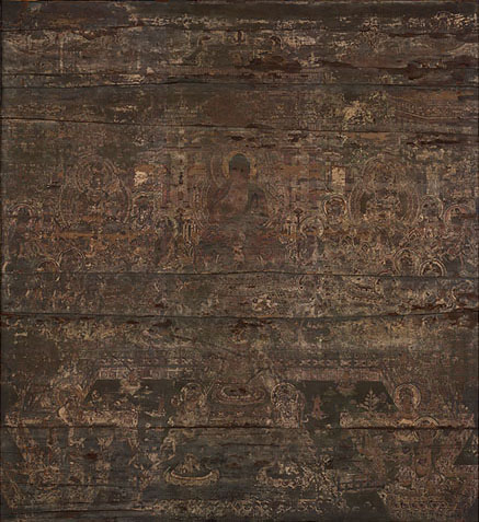 Chiko Mandala, Gangoji, Nara, Japan